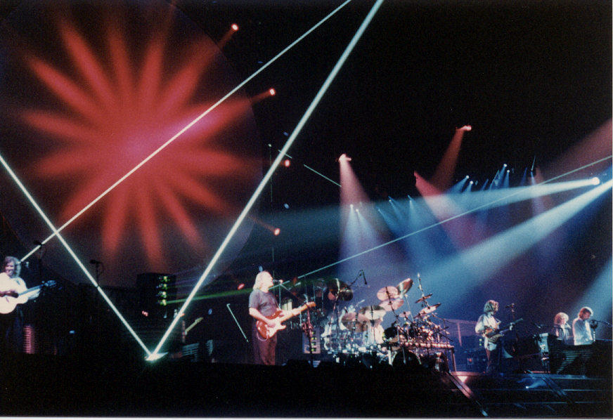 Pink Floyd performing live at Docklands Arena.